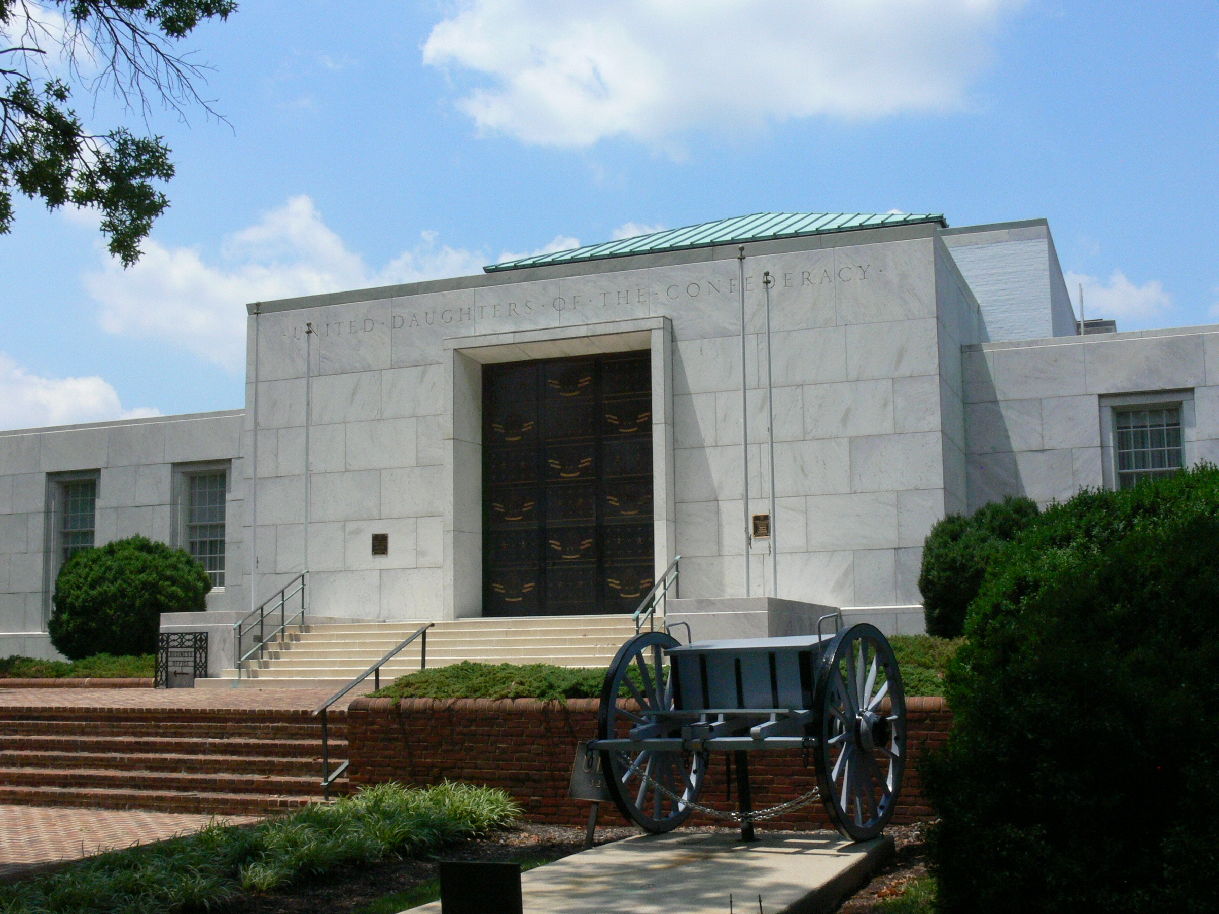 The United Daughters of the Confederacy Headquarters in Richmond, Virginia; on the National Register of Historic Places